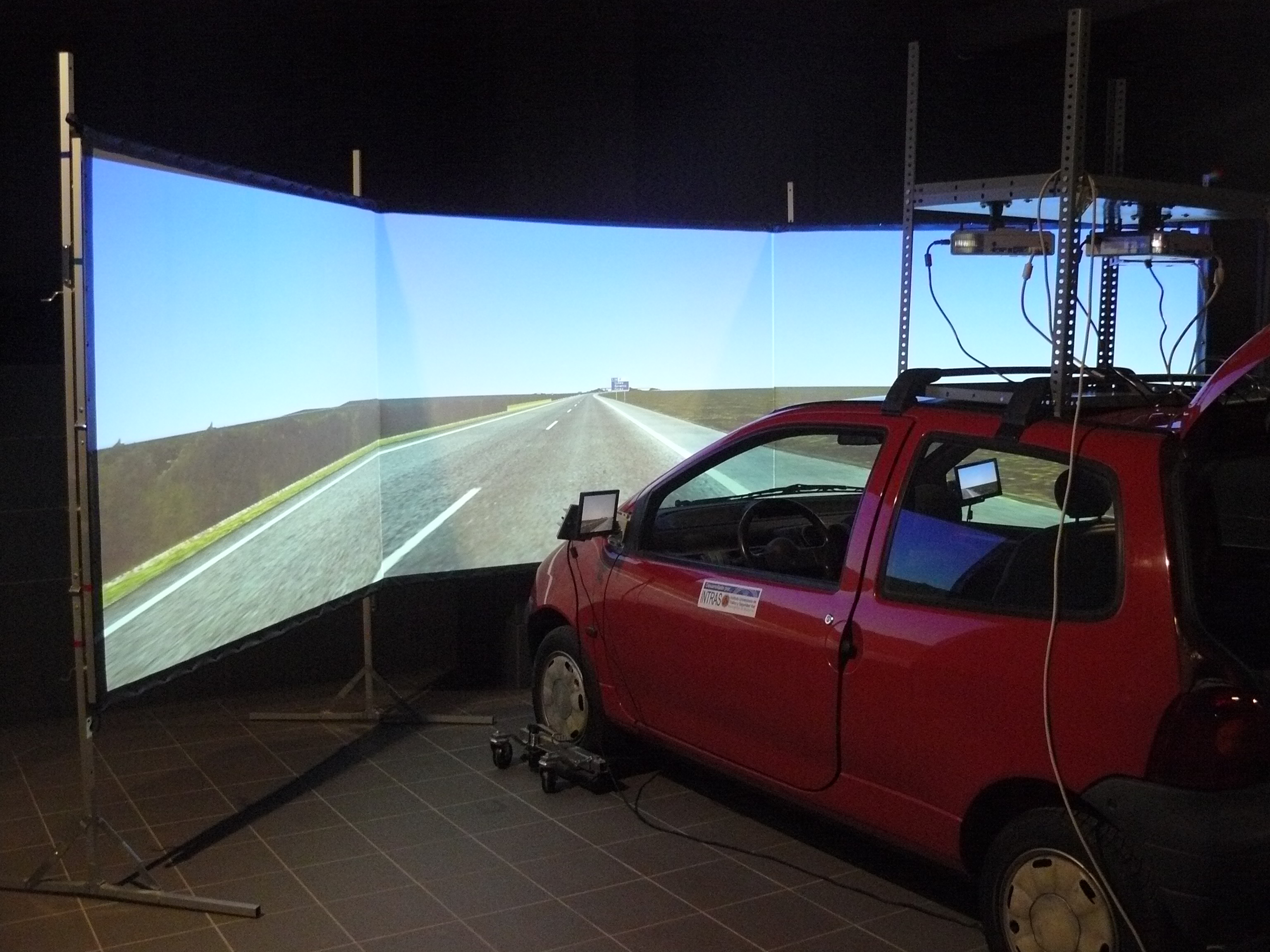 Fotograph of the SIMUVEG Driving Simulator (University of Valencia)